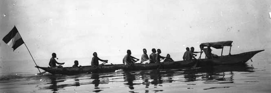 Boat with the flag of Imperial Germany, 1900